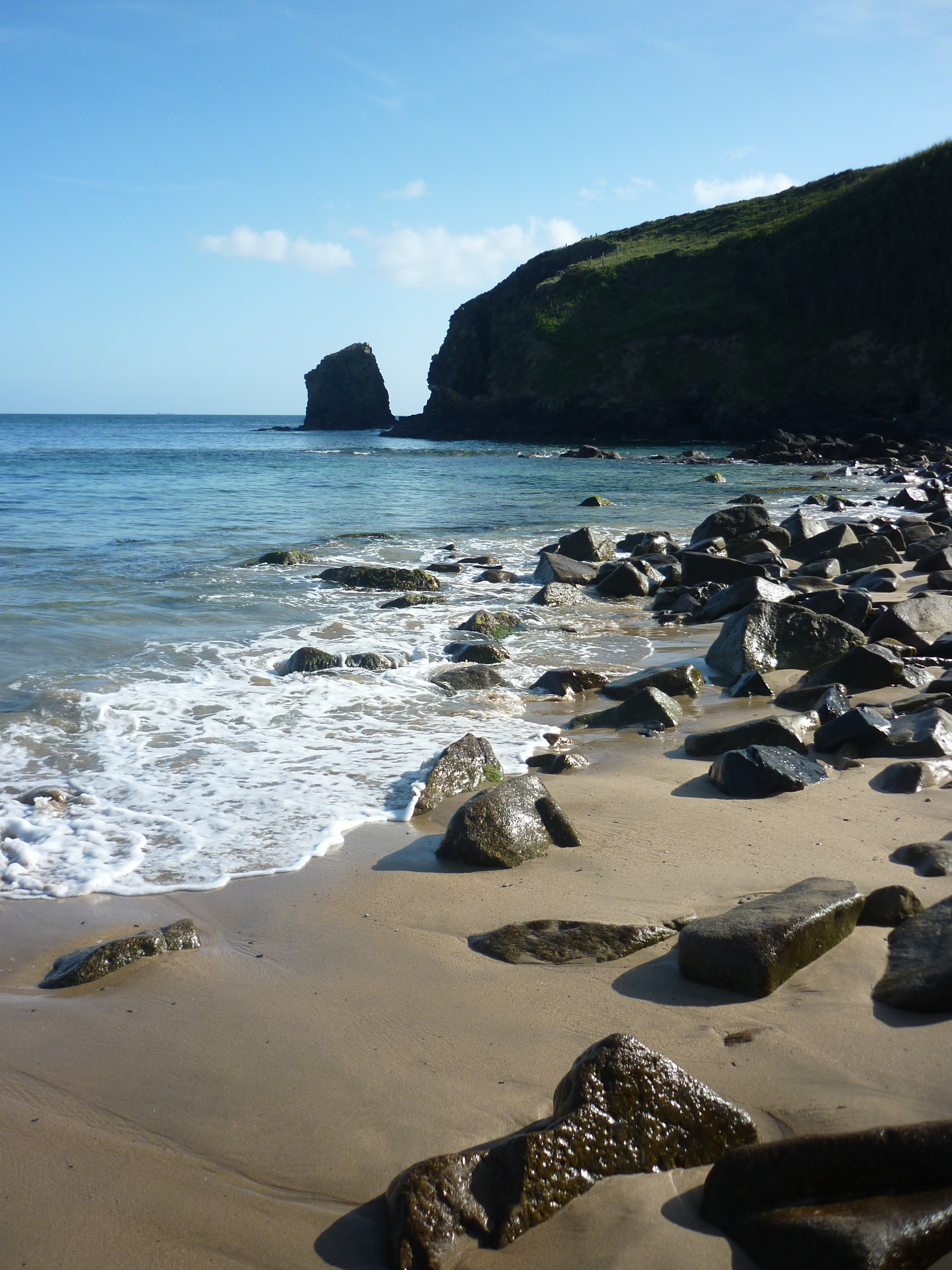 The west end of the beach at Praa Sands, Cornwall in May 2011